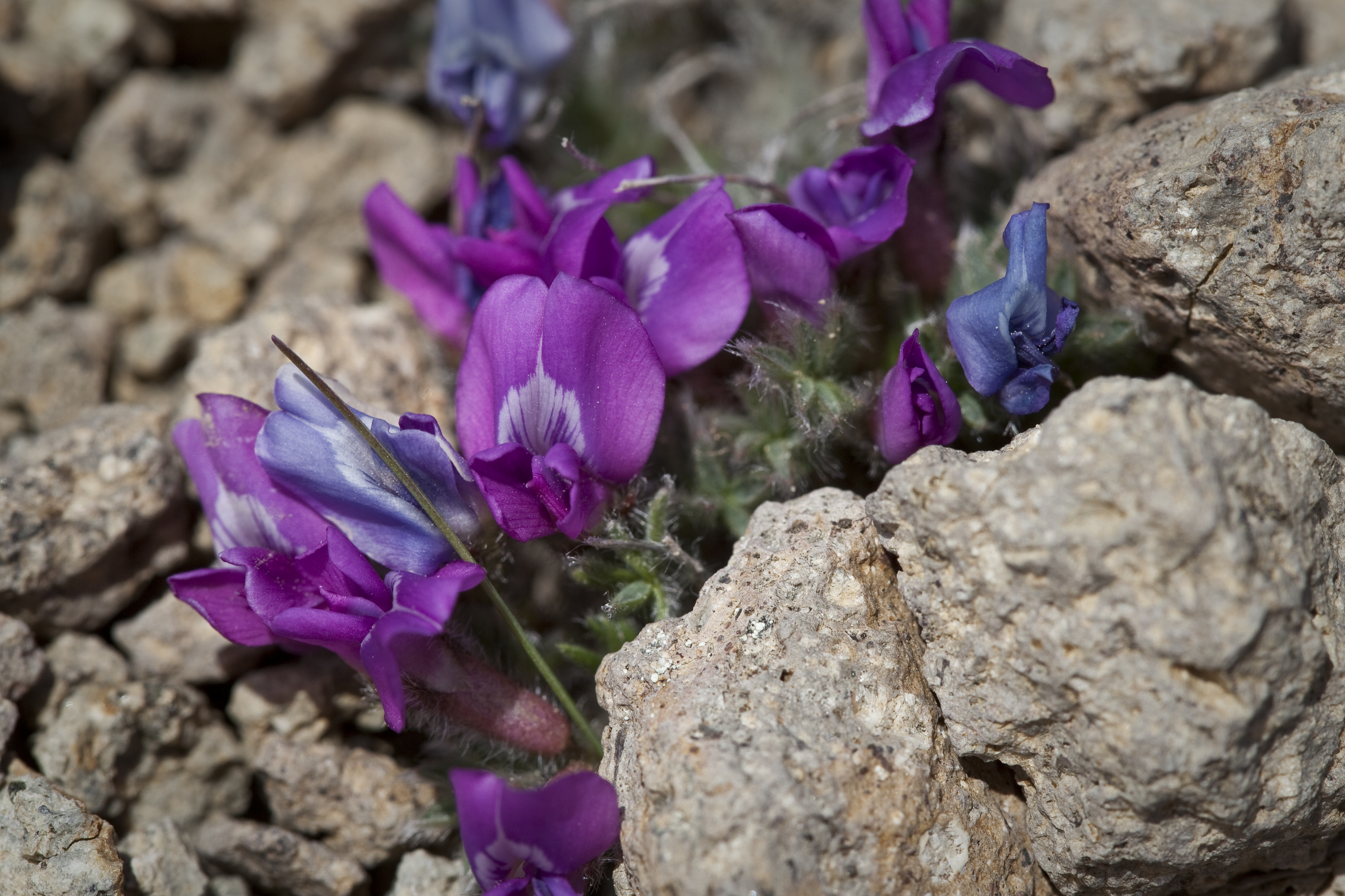 Oxytropis nigrescens, Denali National Park and Preserve, AK, USA